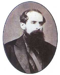 Daguerreotype of Eustorgio Salgar, President of the United States of Colombia (1870-1872).